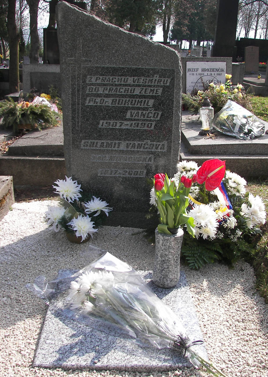 Vanco grave site at National Cemetery - Martin, SK